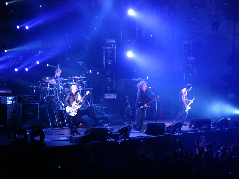 The Cure in Lisbon